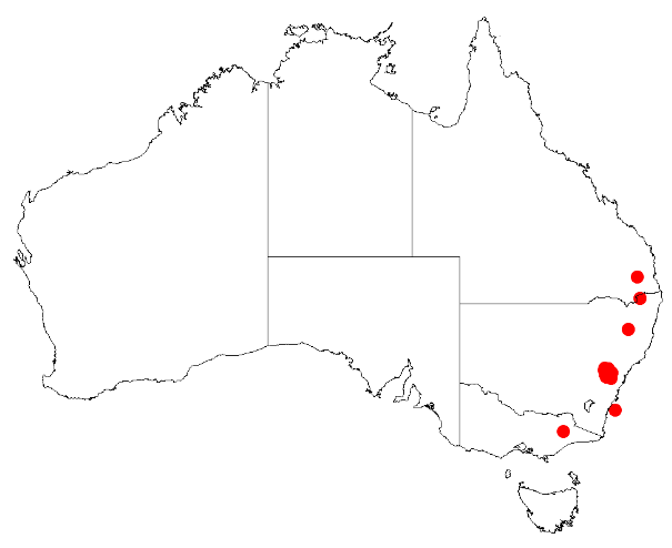 Acacia asparagoides Occurrence data from Australasia Virtual Herbarium downloaded from on 8 December 2018